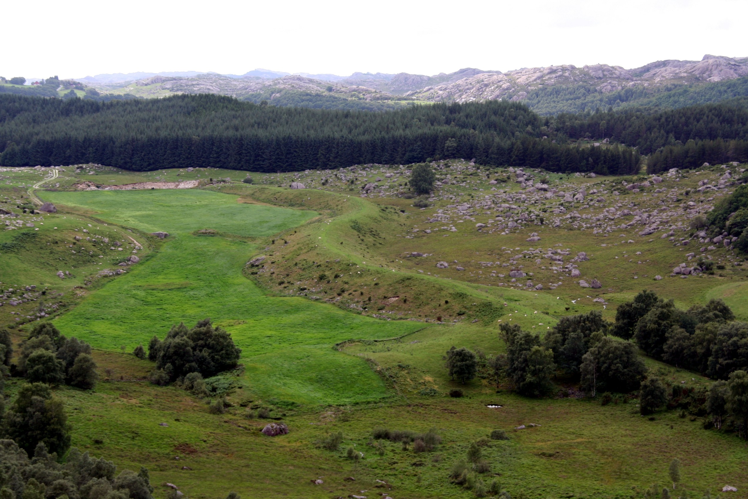 St. Olav's Serpent. This winding ridge marks the course of a stream that flowed under a glacier during the last ice age.